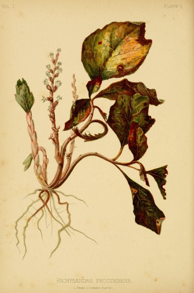 American Thick-Stamen, Pachysandra procumbens Title: The native flowers and ferns of the United States in their botanical, horticultural and popular aspects Year: 1878 (1870s) Authors: Meehan, Thomas, 1826-1901 Subjects: Wild flowers -- United States Ferns -- United States Publisher: Boston : L. Prang and Co. Text Appearing Before Image: f the Golden Columbine into Eng-land it has been taken in hand by the hybridizers, and it isreported that many beautiful varieties have been raised in thisway. It Is not too much to expect that in time we shall haveas many pretty garden varieties of Columbines as there arevarieties of Dahlias or Chrysanthemums; for, besides the numer-ous shades of color which will arise from the mixture of yellowwith the various colors already existing in English gardens, wemay also look for flowers with an increase In the number oftheir petals, or, as it is technically called, of different degrees ofdoubleness, as the anthers very readily turn to petals In ourflower. The Golden Columbine continues In flower longer than anyother species we have in cultivation. It is easily raised fromseeds and by dividing the roots. The seeds should be sown assoon as ripe, when many of the plants will bloom the next year.If the seeds are not sown till spring the plants never flower tillthe year following. Vol Plate 6. Text Appearing After Image: PACHYSANDRi^. FROCUMBENS L. Prang .;= Company, Boston